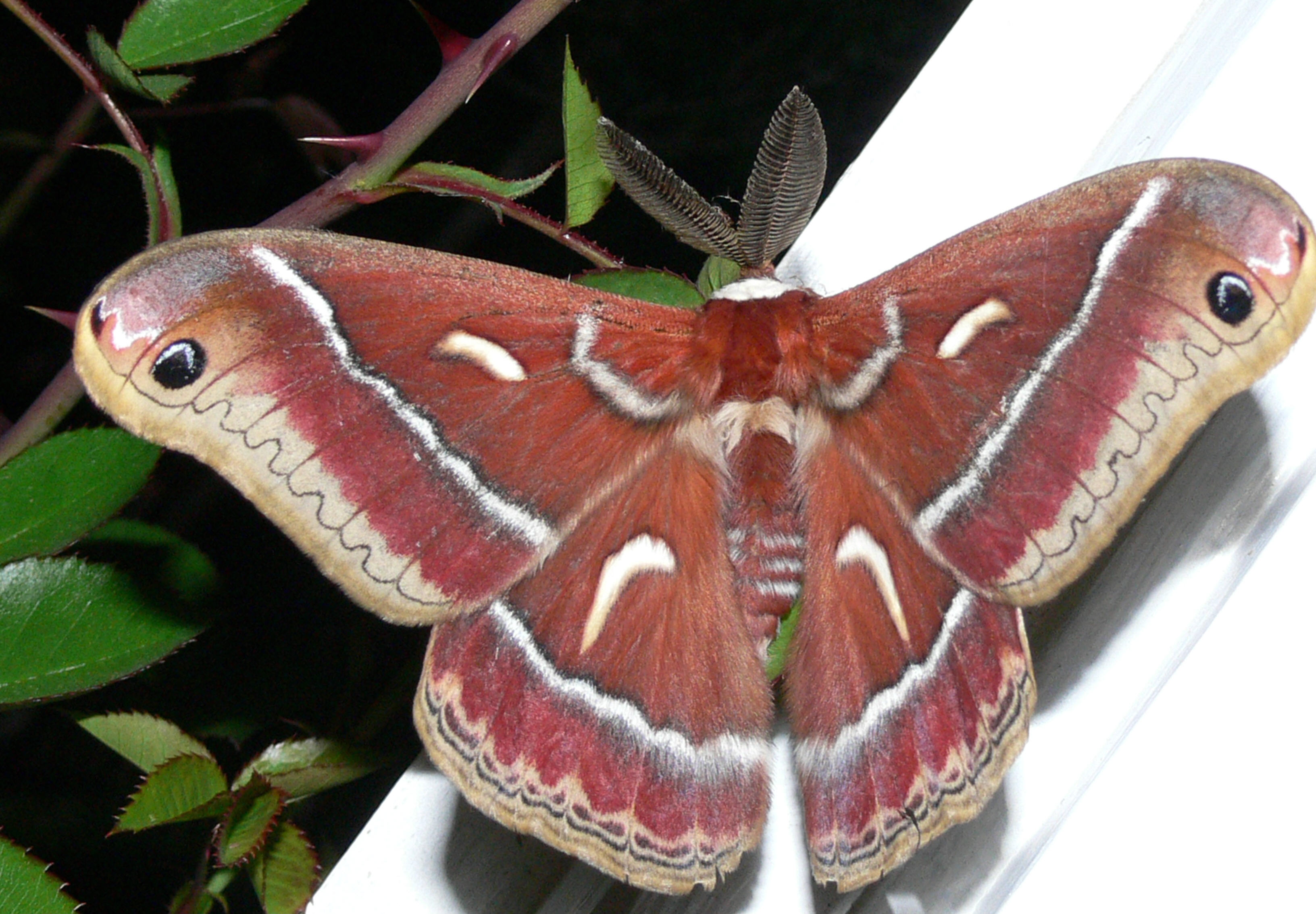 Compare this Ceanothus Moth to the Cecropia Moth (also found in this set). Lots of similarities.